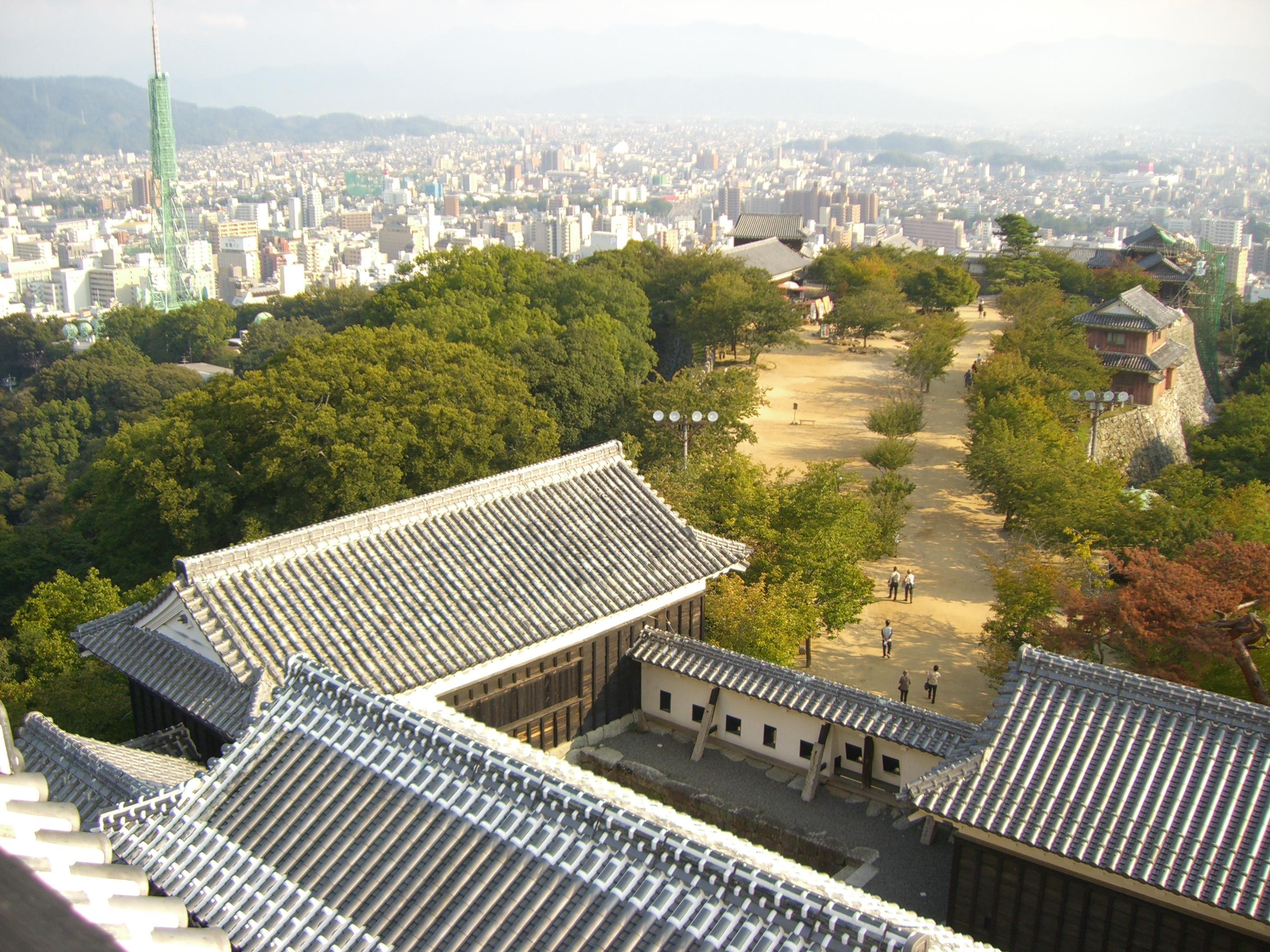 Main Bailey view from the Matsuyama Castle Tower (Ehime JAPAN)